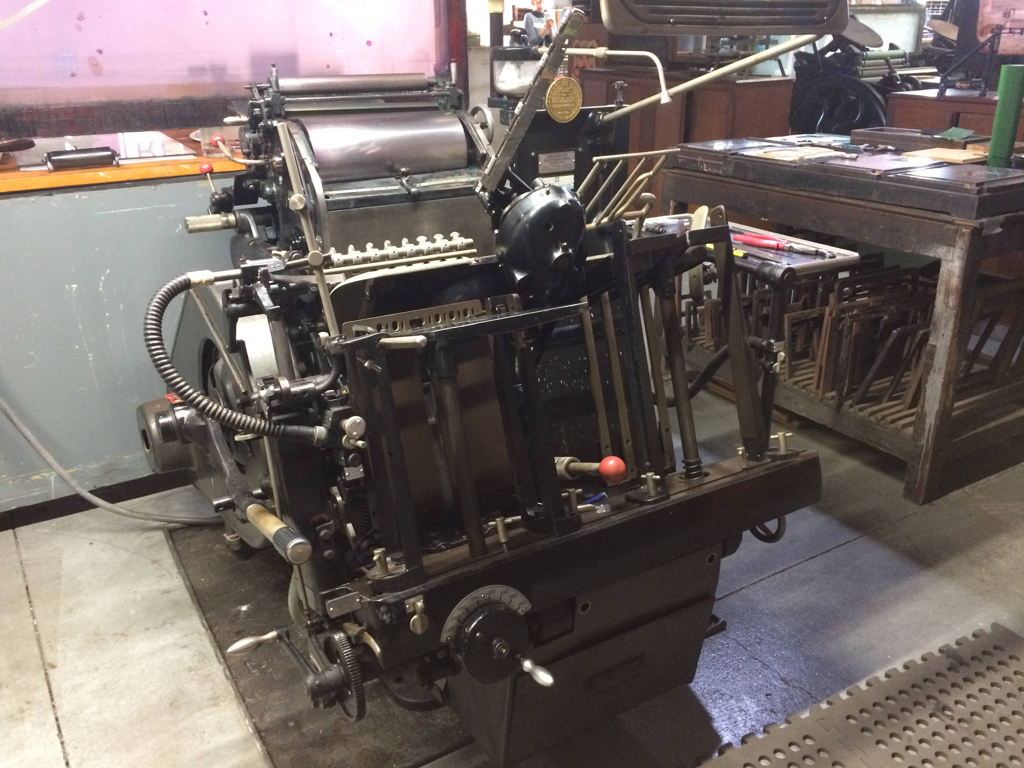 A Heidelberg Platen Press viewed from the front left